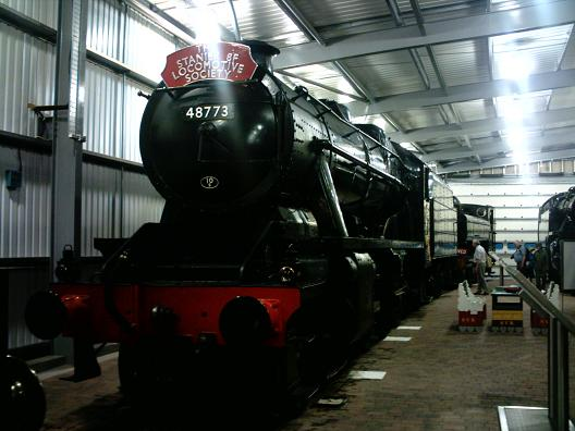 Severn Valley Engine House